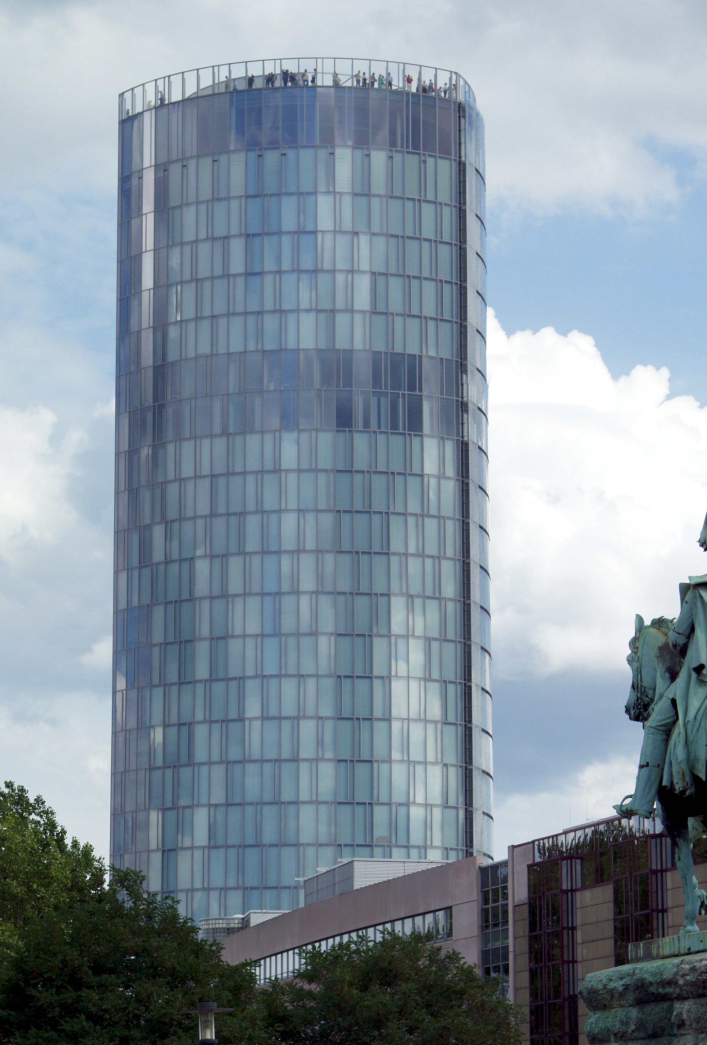 Former head office of the European Aviation Safety Agency, KölnTriangle